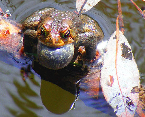 American Toad singing, Location-High Park, Toronto, Ontario, Canada [photo by P.B.Toman]